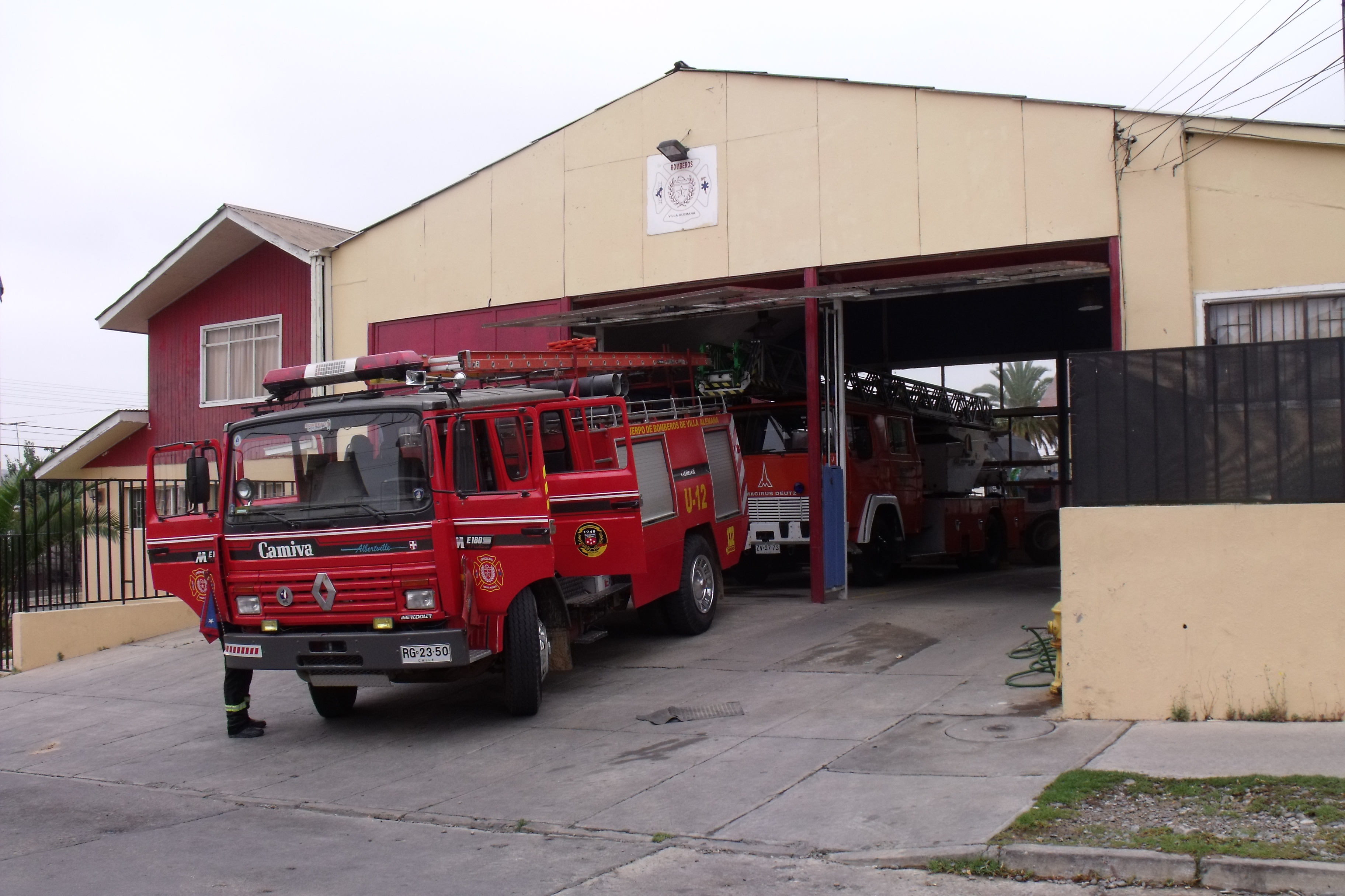 Fire engine (Fire truck)